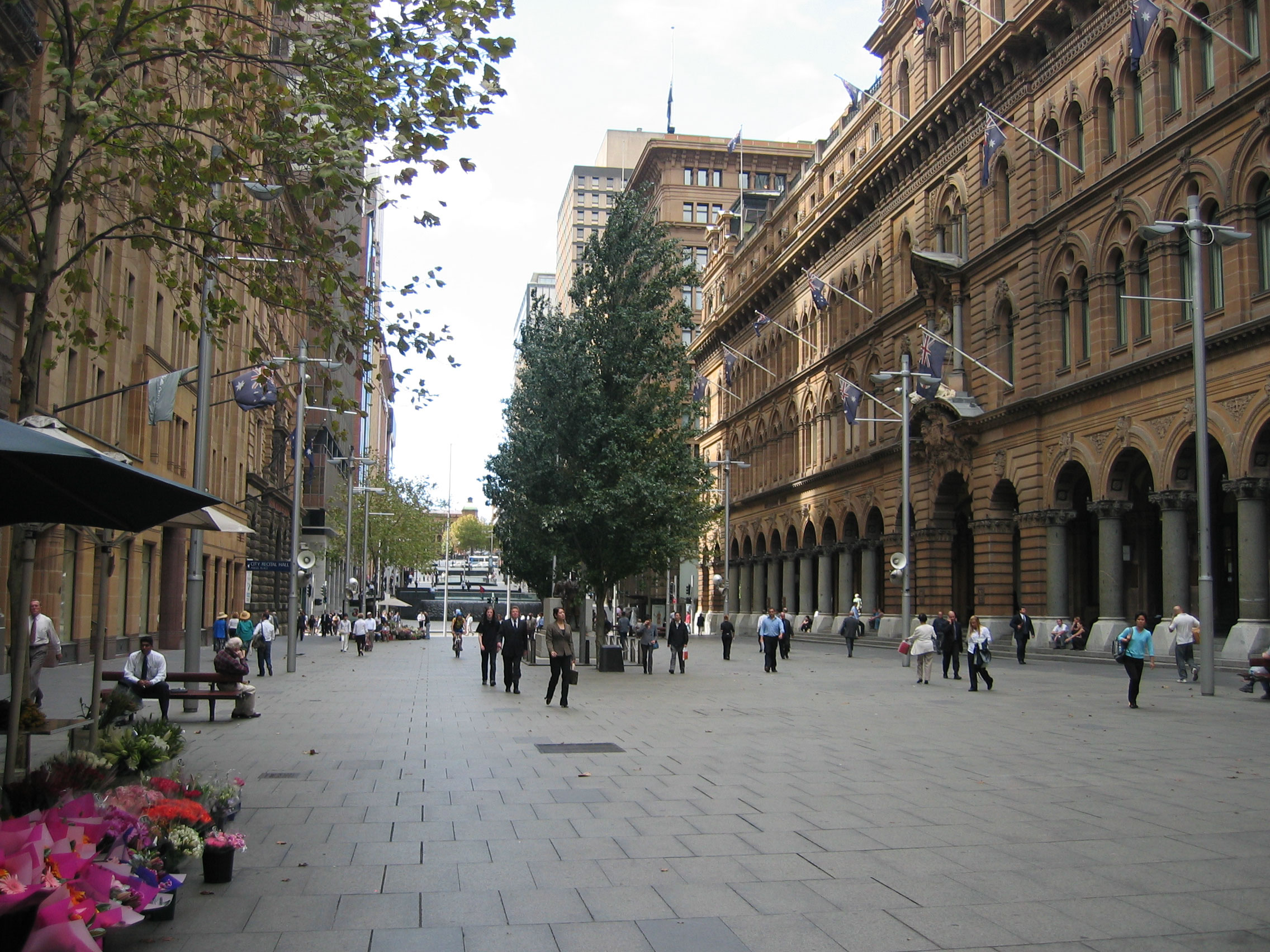 Martin Place, Sydney. Taken 12 April, 2005. A major pedestrian mall in the city of Sydney, Australia. Also the location of the final fight between Neo and Agent Smith in The Matrix Revolutions.